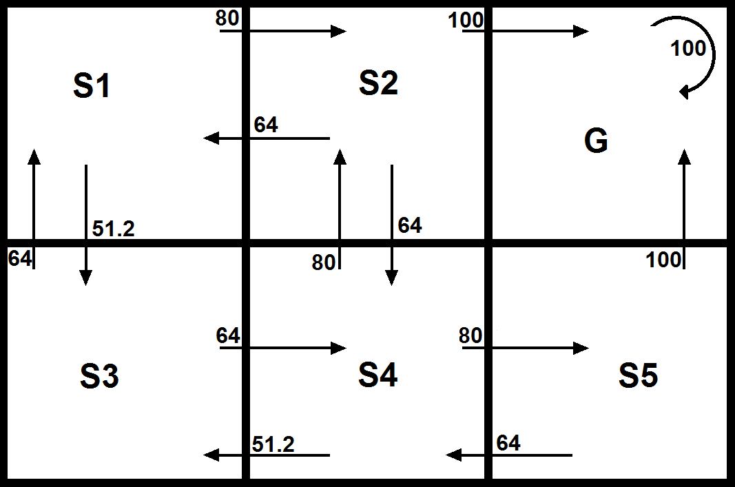 Q-learning example with solution